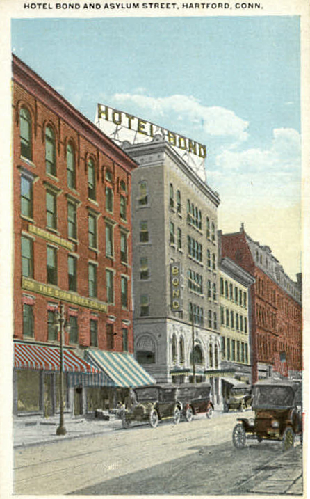 postcard image of Hotel Bond, in Hartford, Connecticut. this is the first section, built in 1913, shown before the second section was added in 1921.